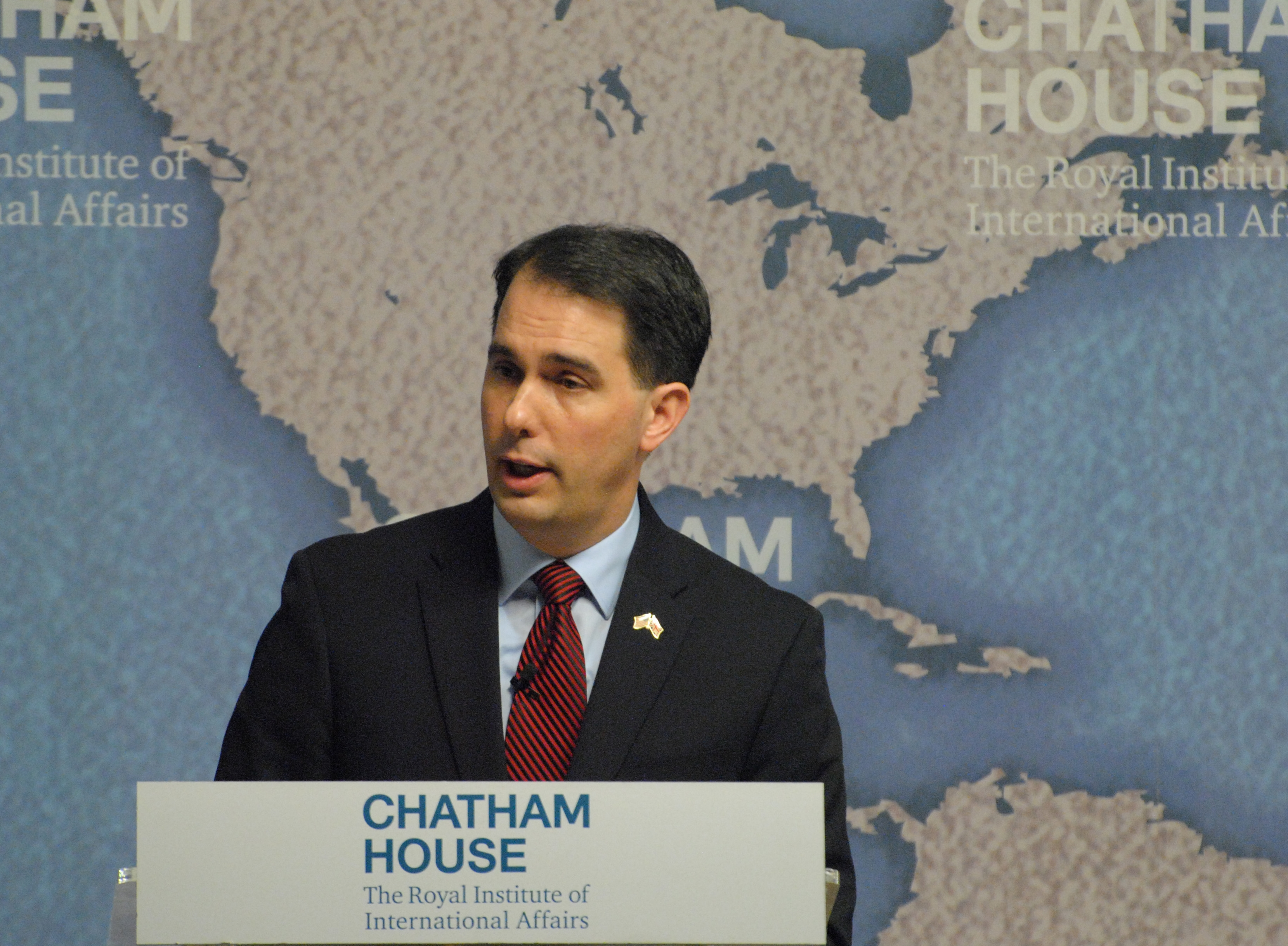 Building Global Partnerships for Stronger Local Economies